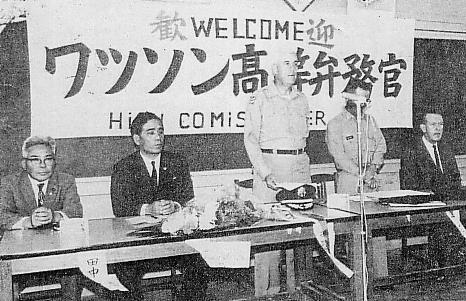 HICOM Watson visit Tsuken Island